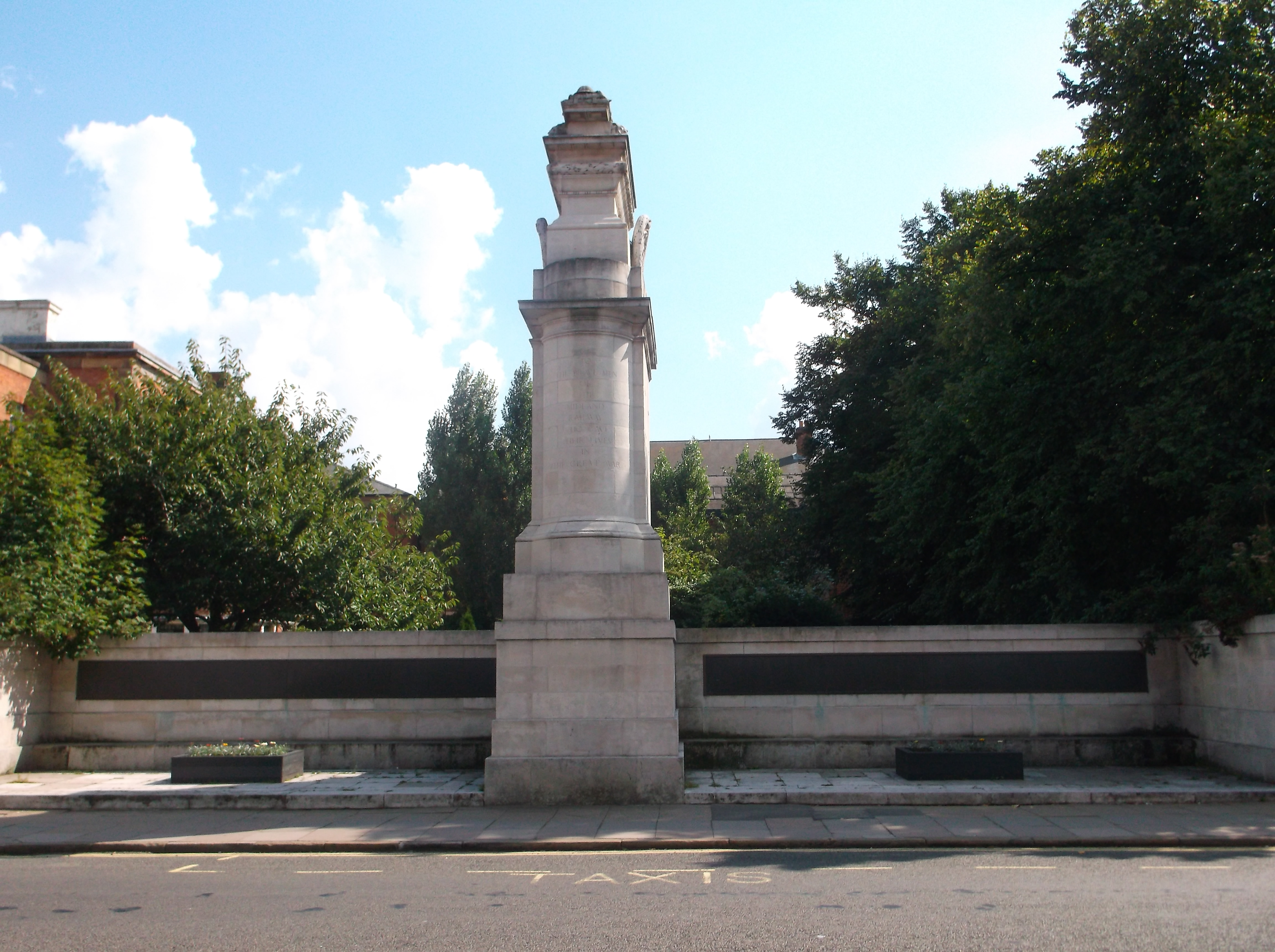 Midland Railway War Memorial. This impressive memorial, made from Portland Stone, stands on Midland Street in Derby, a short distance from Derby Midland station and is a grade II* listed building, but sadly seems to be mostly overlooked. The inscription reads "To the brave men of the Midland Railway who gave their lives in the Great War". Brass plaques either side of the cenotaph record the names of those men.